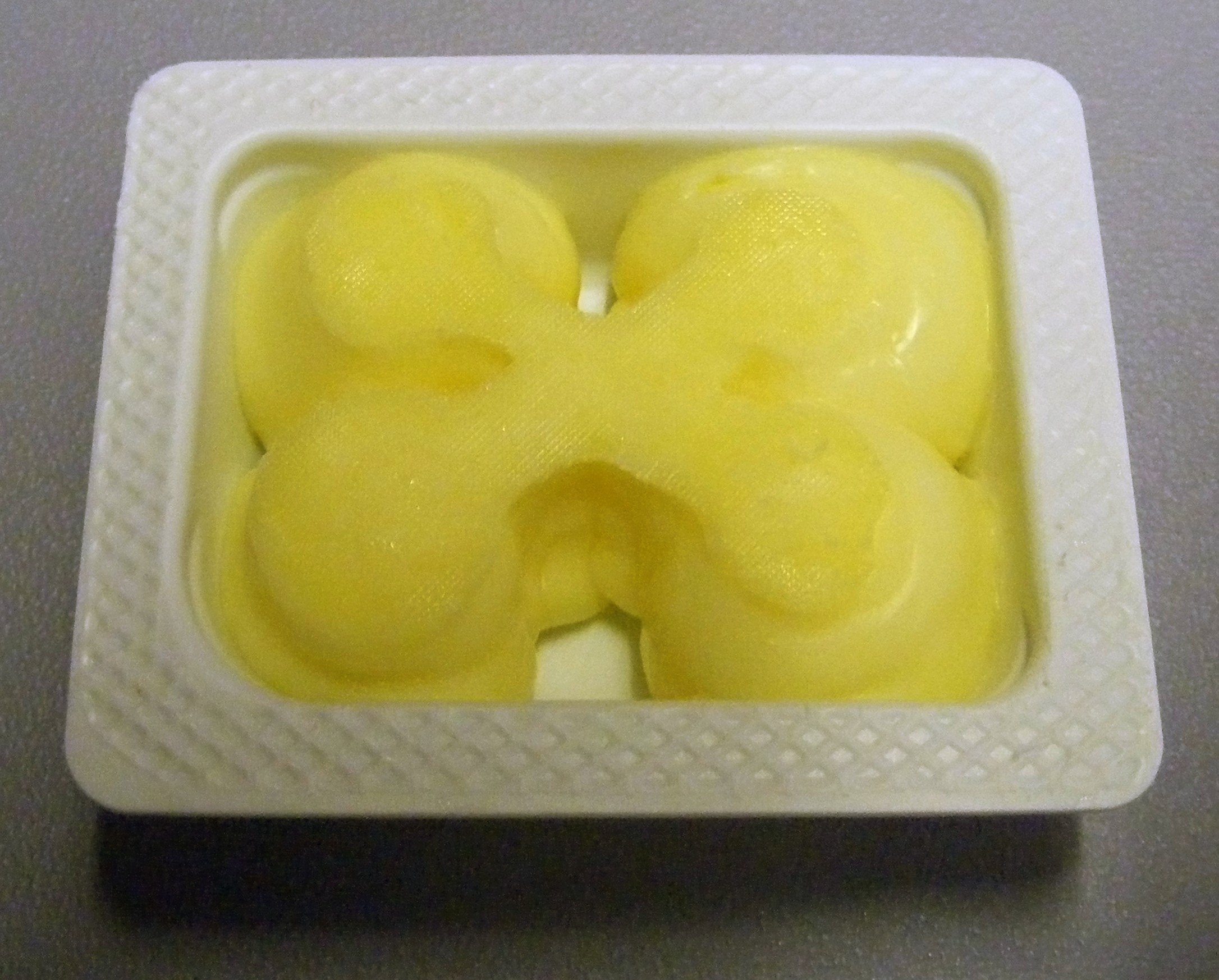 Butter, single portion in a plastic container.